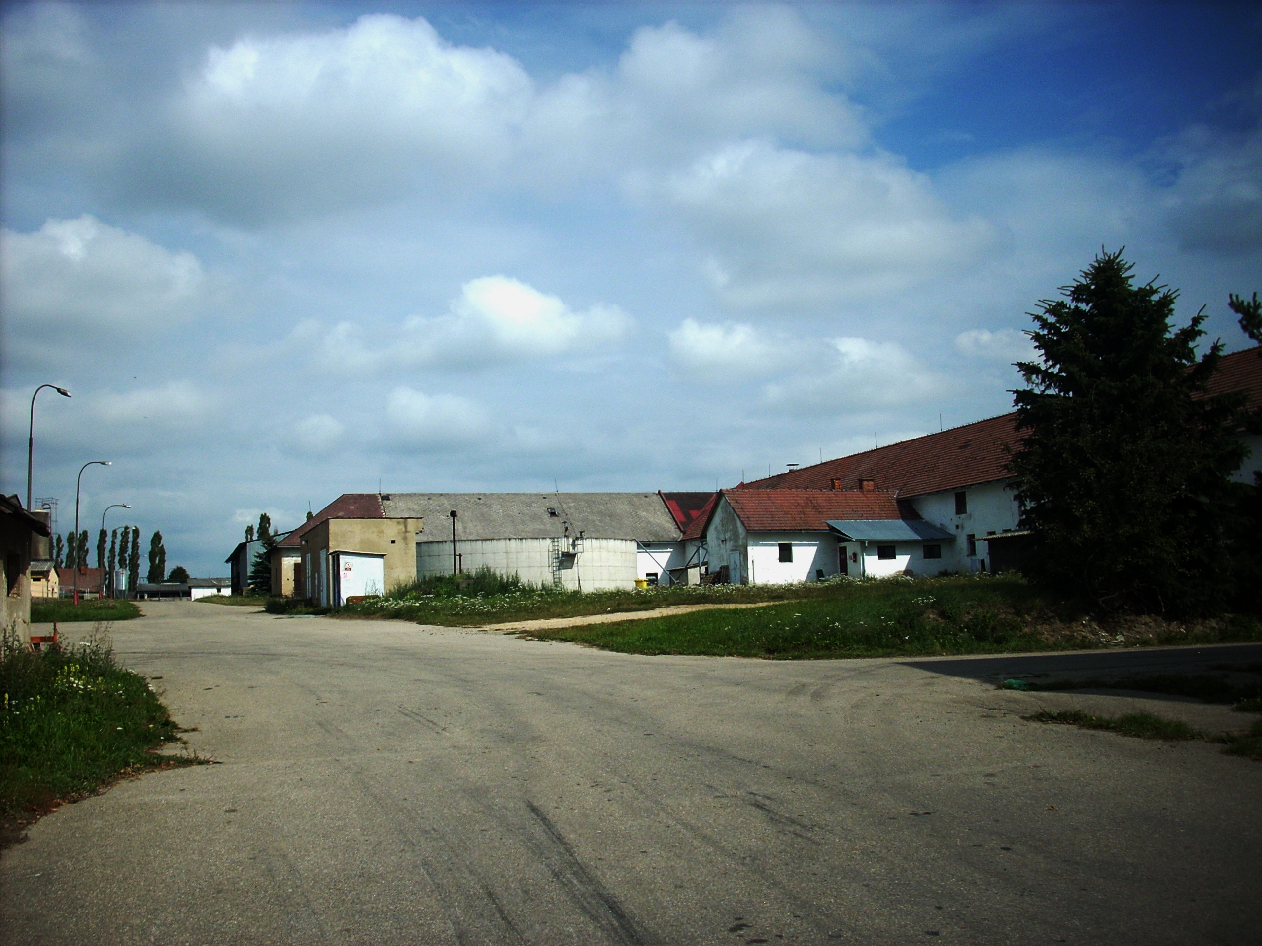 Ždírec (Jihlava District) - Agricultural Production Comradeship